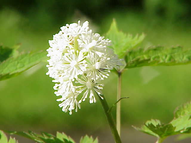 Species: Actaea rubra (syn. A. erythrocarpa) Family: Ranunculaceae Image No. 1